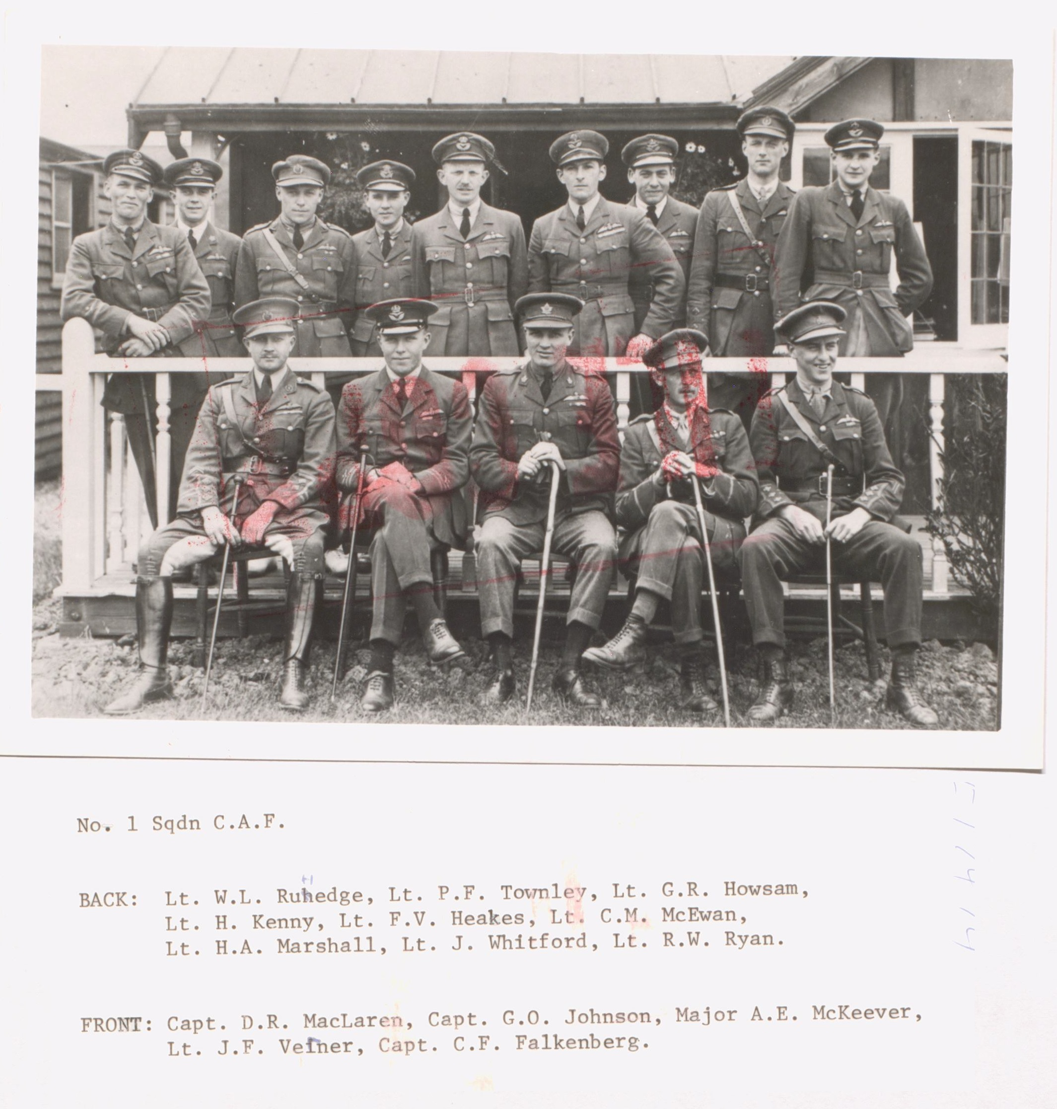 Personnel of No. 1 Squadron, Canadian Air Force (1918-1920). Back row: Lieutenants W.L. Ruhedge, P.F. Townley, G.R. Howsam, H. Kenny, F.V. Heakes, C.M. McEwan, H.A. Marshall, J. Whitford, and R.W. Ryan. Front row: Captains D.R. MacLaren, G.O. Johnson, Major A.E. McKeever, Lieutenant J.F. Veiner, Captain C.F. Falkenberg